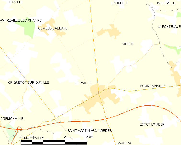 Map of French municipality Yerville